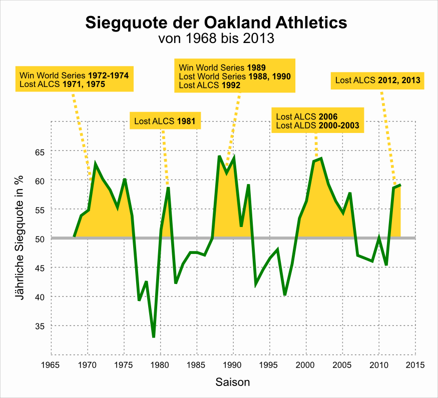 Winning percentage of the Oakland A's 1968-2008